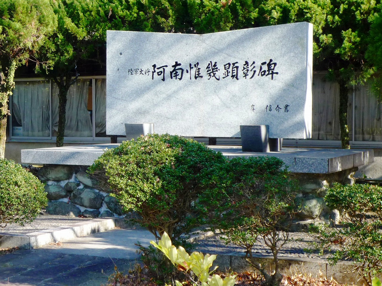 Anami Korechika(阿南惟幾) Cite Monument. Kishi Nobusuke(岸信介)'s handwriting.